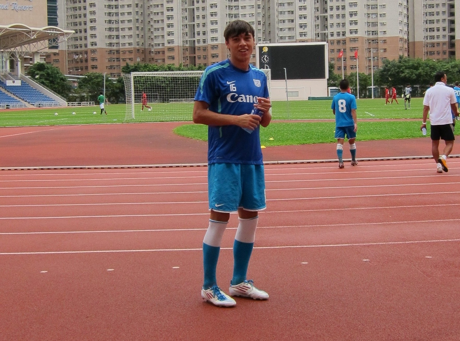 James Ha played for Kitchee against Hong Kong national football team on 16 July 2011